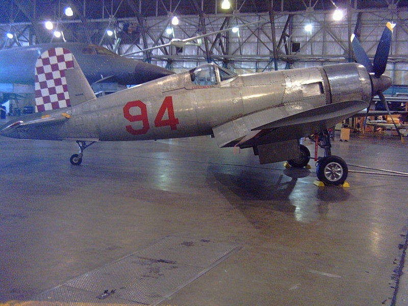 Goodyear FG1D